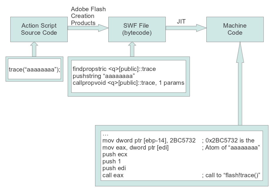 action